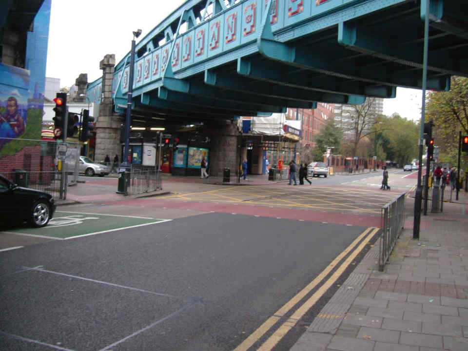 Southbound Jubilee and Metropolitan line Underground services run across the blue bridge which bears the legend "Metropolitan Railway". Kilburn station is located under the bridge and scaffolding used during its refurbishment can be seen in the photo.